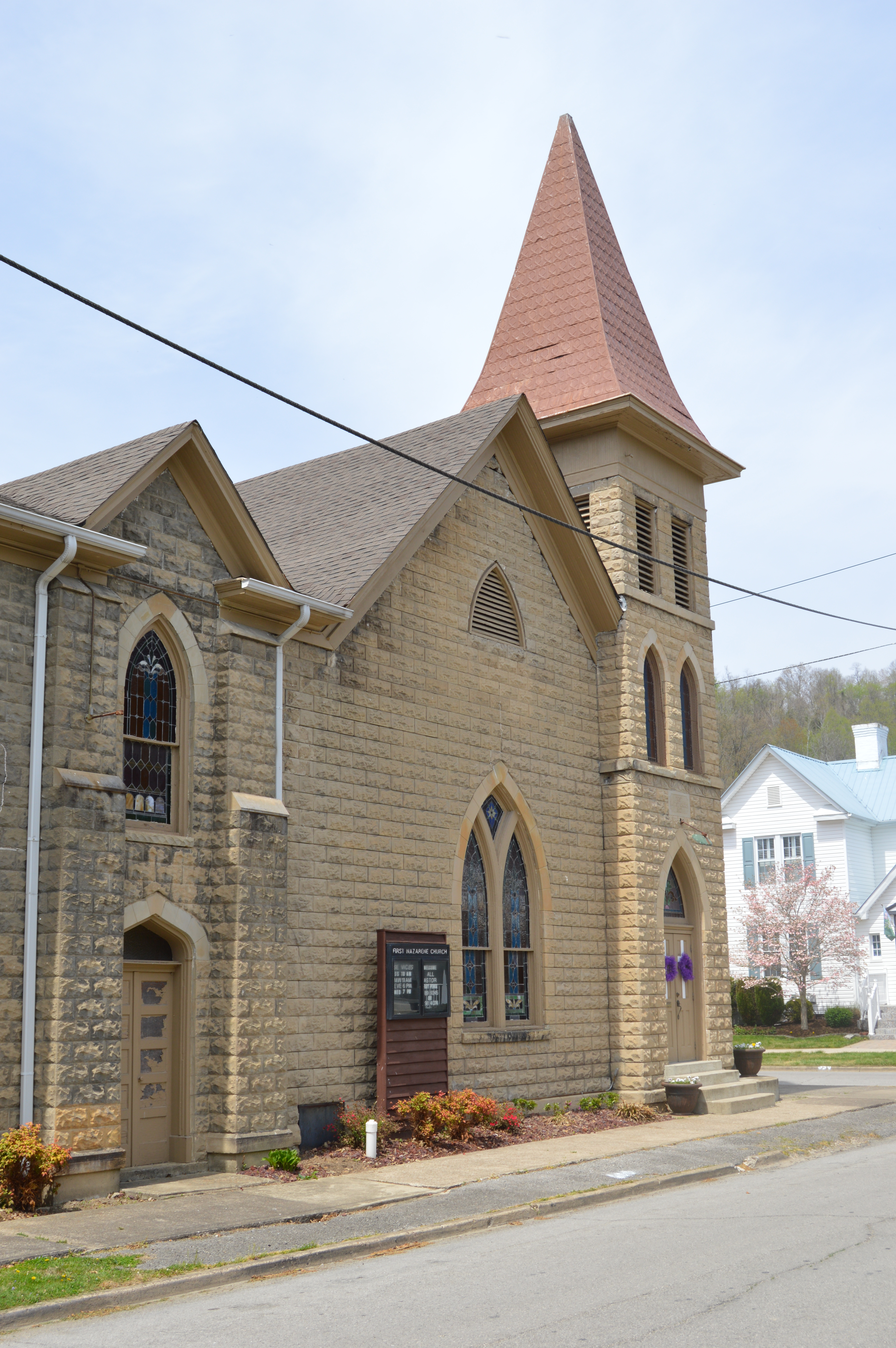 Front of the former First Baptist Church of Paintsville (now the First Church of the Nazarene), located at 421 College Street in Paintsville, Kentucky, United States. Built in 1907, it is listed on the National Register of Historic Places.